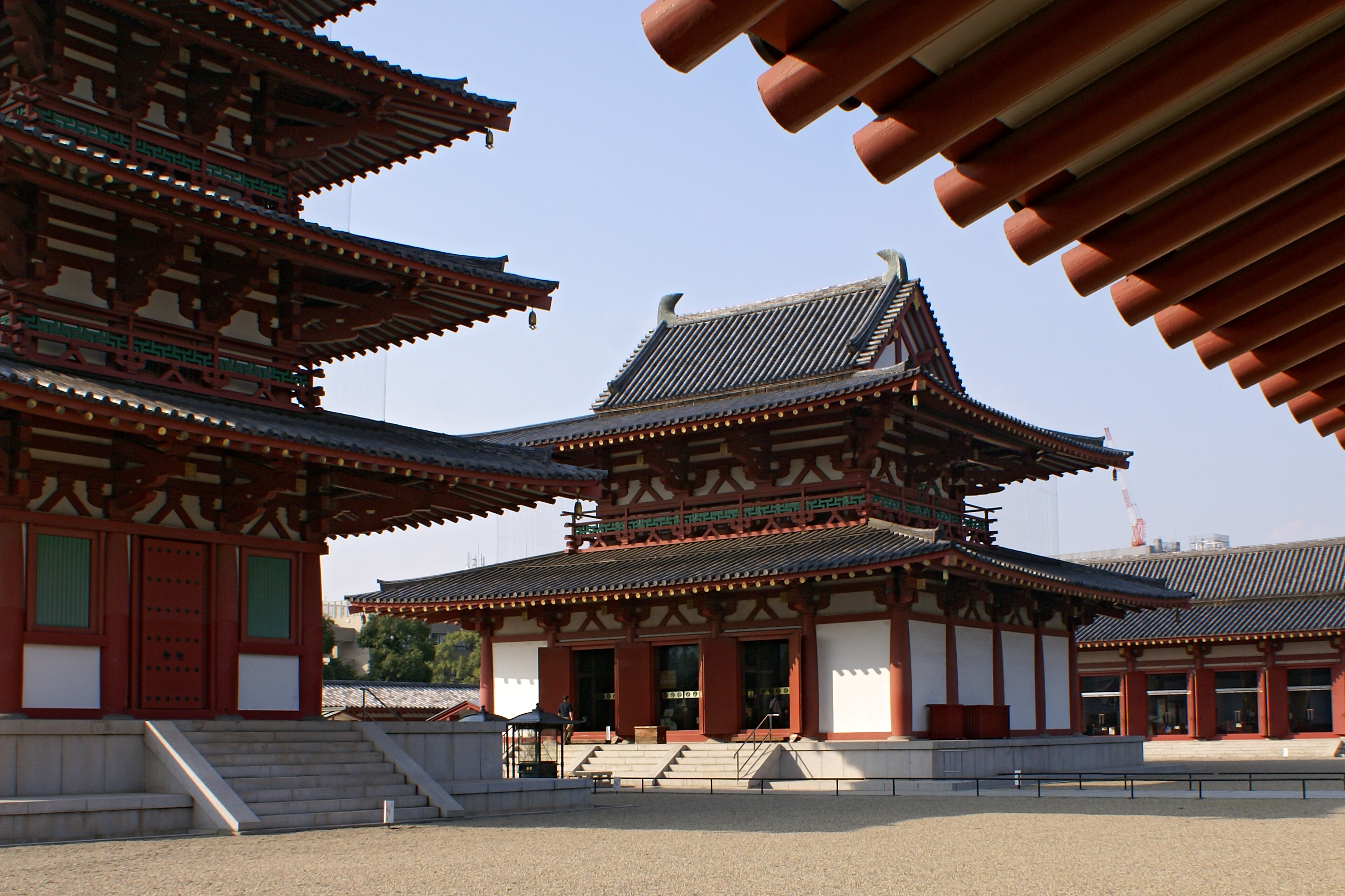 Kondo of Shitennō-ji in Osaka, Osaka prefecture, Japan